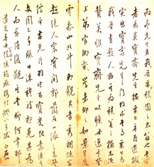 Bai Enyou's calligraphy